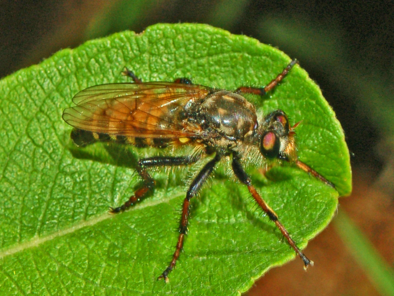 Cyrtopogon ruficornis. Female. Valle Argentera, Turin, Italy